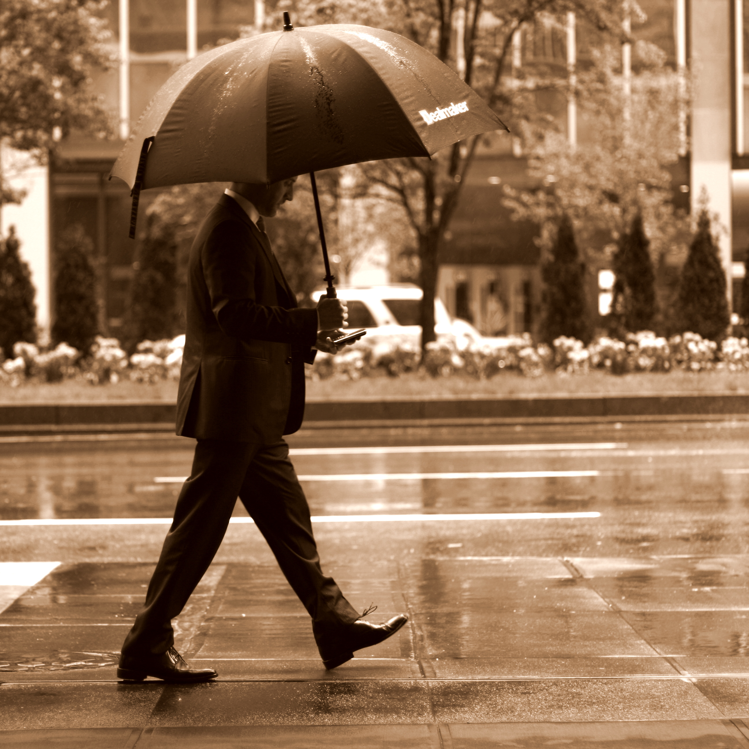 "The dealmaker". Man walking down a city sidewalk in the rain, carrying an umbrella and using a pda. New York City.